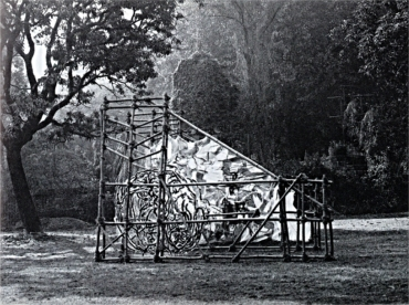 "The Universe Moves", construction of bamboo,netting, drawing on fabric in the parc of the Lalit Kala Academi in New Delhi, India